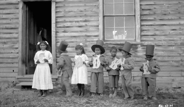 Title / Titre : Children at Fort Simpson Indian Residential School holding letters that spell “Goodbye,” Fort Simpson, Northwest Territories, 1922 / Enfants au Pensionnat indien de Fort Simpson tenant des lettres formant le mot « Goodbye », Fort Simpson (Territoires du Nord-Ouest), 1922 Creator(s) / Créateur(s) : J. F. Moran Date(s) : circa / vers 1922 Reference No. / Numéro de référence : MIKAN 3194044, 3628582 Location / Lieu : Fort Simpson, Northwest Territories, Canada / Fort Simpson, Territoires du Nord-Ouest, Canada Credit / Mention de source : J. F. Moran. Library and Archives Canada, PA-102575 / J. F. Moran. Bibliothèque et Archives Canada, PA-102575